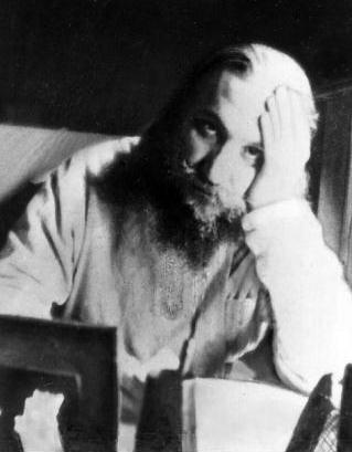 The russian on the bottom says "Archbishop Bartholomew Remov" which the picture is depicting.